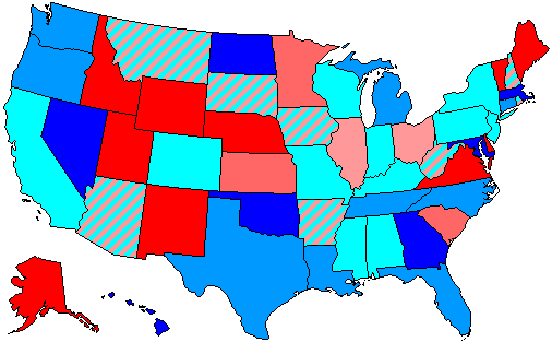 Summary of party control of U.S. house seats in the 97th United States Congress following election. Stripes indicate a tie between two or more parties. Legend: 80.1-100% Democratic seat majority 60.1-80% Democratic seat majority 60% or less Democratic seat plurality 60% or less Republican seat plurality 60.1-80% Republican seat majority 80.1-100% Republican seat majority